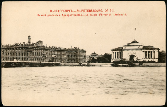 View of the Dvortsovaya Enbankment before 1914 year